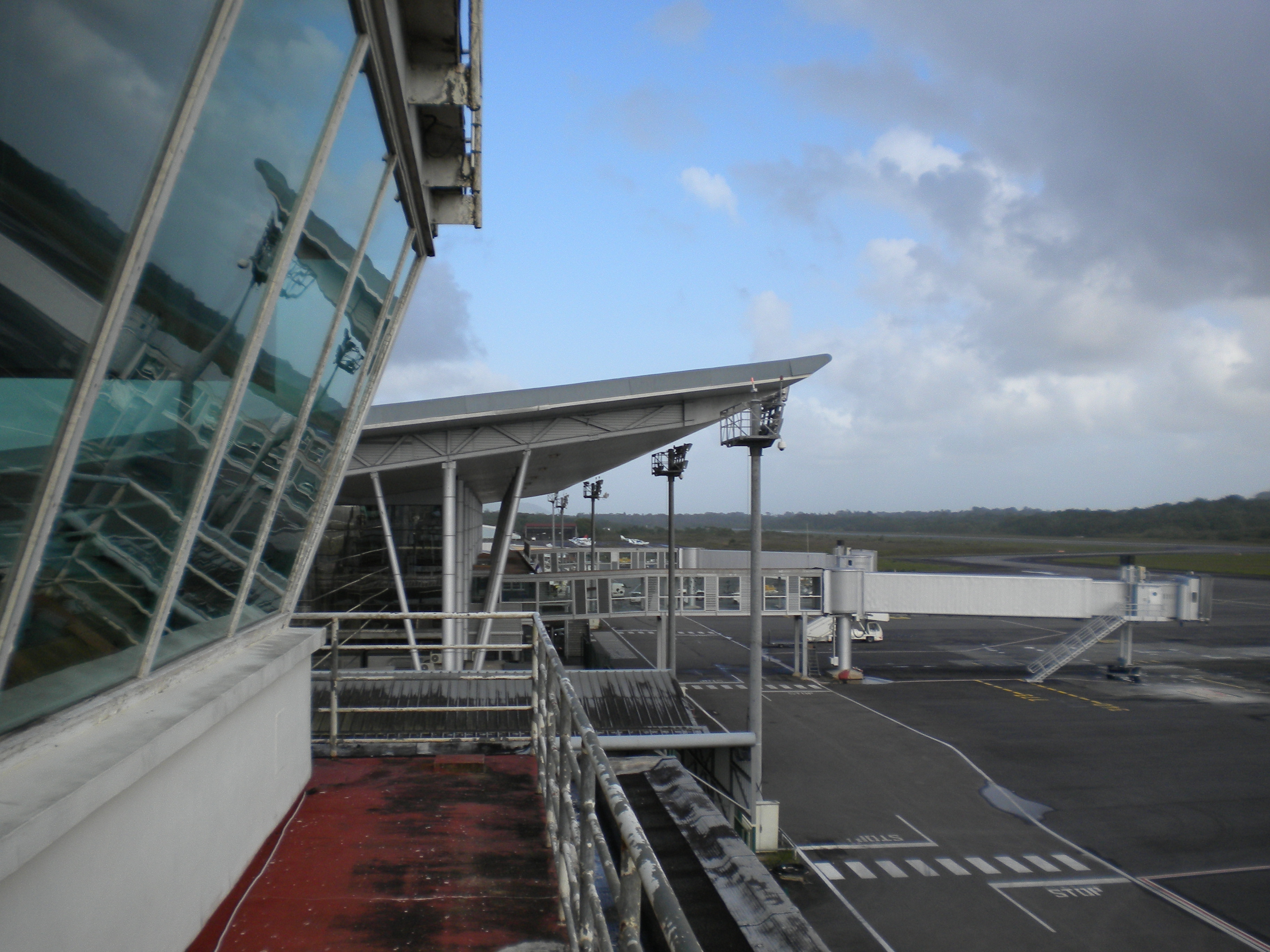 Rochambeau international airport boarding platform